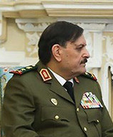 Syrian Defense Minister General Fahd Jassem al-Freij in Tehran